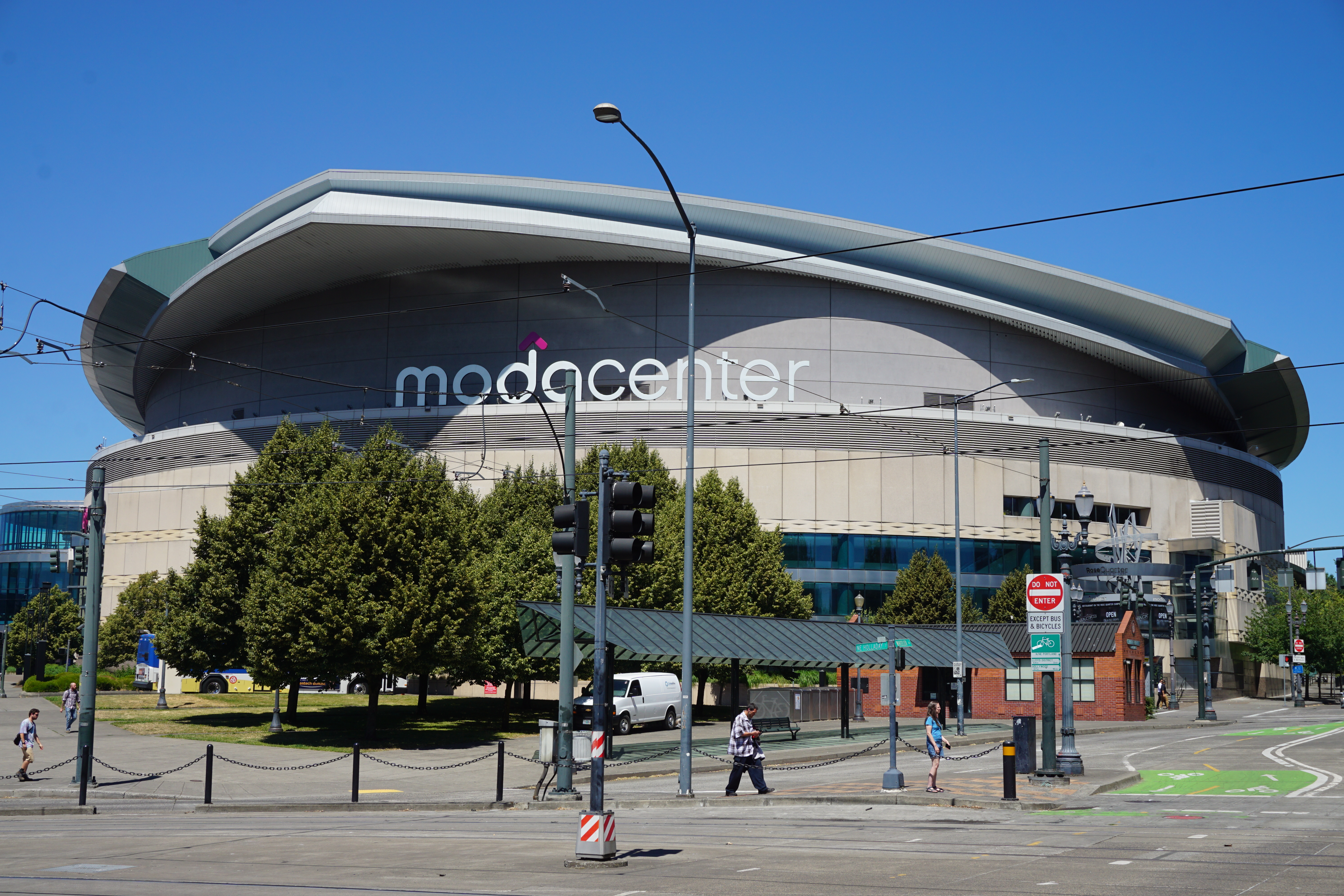 Moda Center in Portland, Oregon (United States).